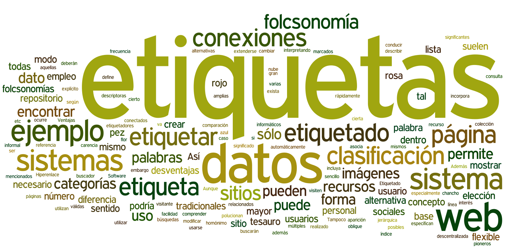 Tag cloud of the spanish wikipedia article "Etiqueta (metadato)"